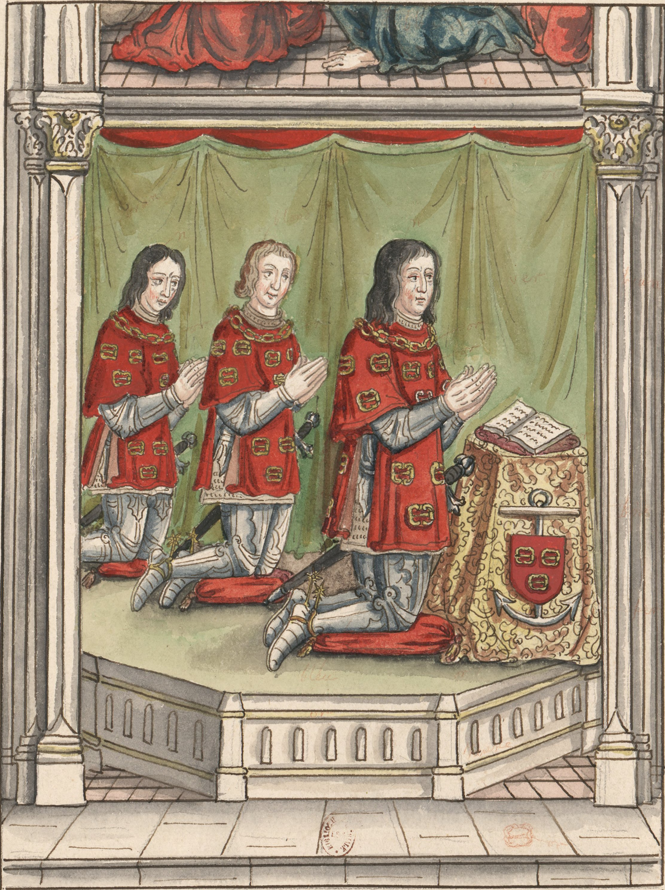 Louis Malet de Granville and his sons